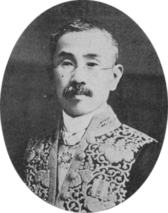 Yoshisaburō Okano, 7th director of the Second Higher School.